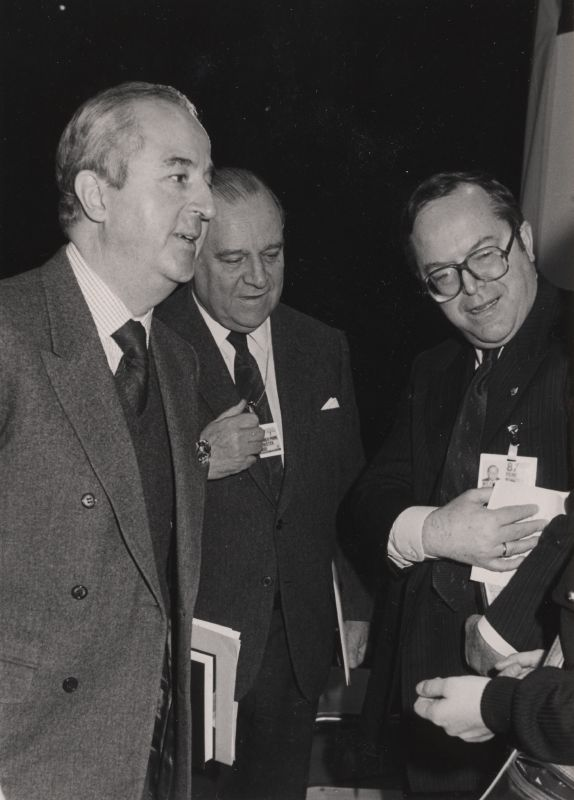 Édouard Balladur and Raymond Barre, who have both been Prime Ministers of France, at the World Economic Forum in 1987. Also on the picture, Wilfried Martens.